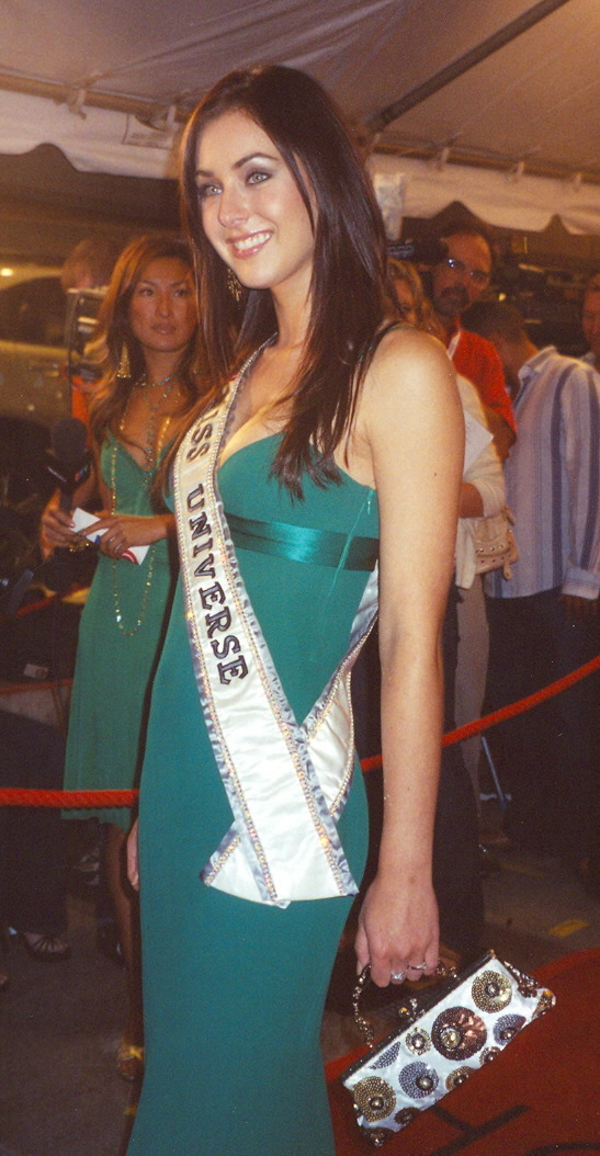 Photo of "Miss Universe" Natalie Glebova at the Toronto International Film Festival.